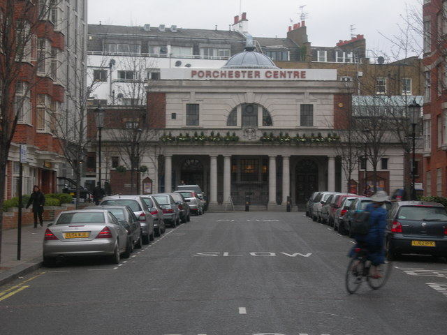 Porchester Centre. This Leisure Centre has a pool and many other facilities besides.